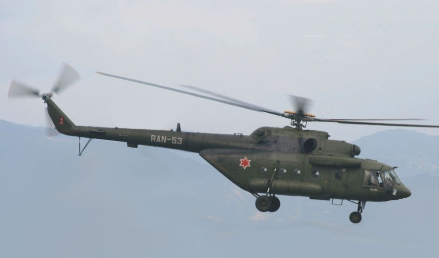 Nepal Air Force Mil Mi-171 UA-320-1